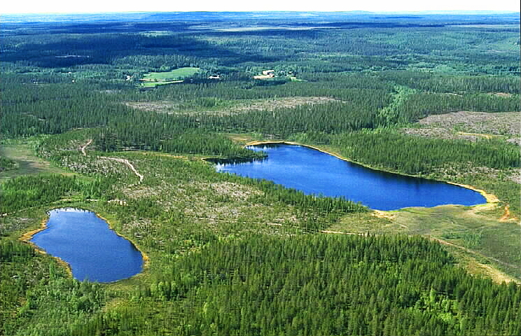 The lakes Stortjärnen (right) and Mossarottjärnen (left) in Kalix municipality, Norrbotten county, Sweden. Fattenborg nature reserve beyond the lakes.